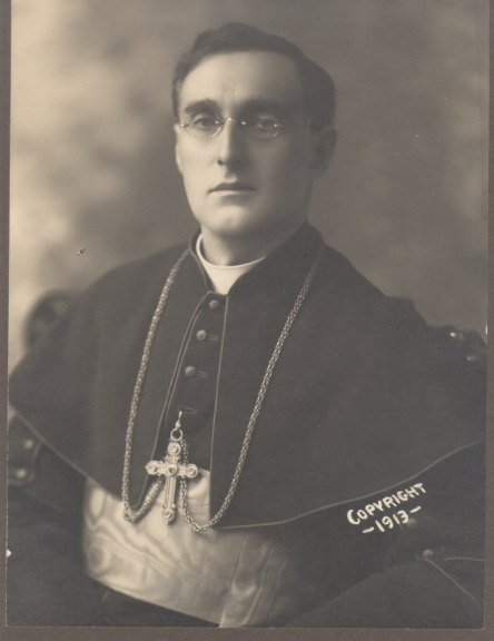 Mgr Alfred-Édouard Leblanc, the fist Acadian bishop.